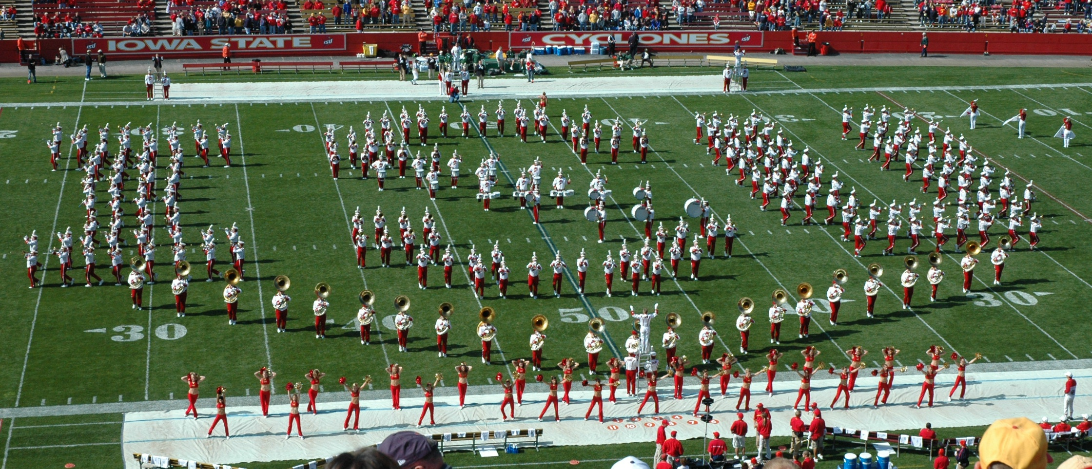 The middle of the ISU marching band pregame.